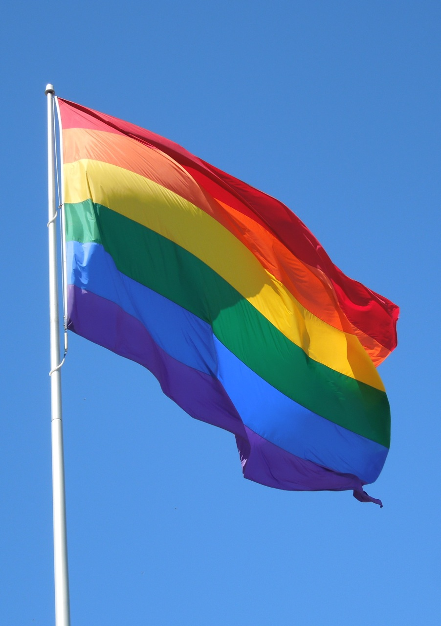 Bandera gay